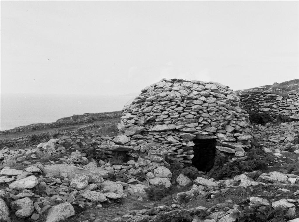 Bee Hive hut near Slea Head. Taken in 1960. I cannot be certain of its location, but I am certain that it is the same one as photographed by Warren Buckley in 2003 12905, so I am relying on the accuracy of his information, although it is precise only to the km square. Particularly, the pattern of stones to the right of the entrance agree exactly, although there has clearly been some restoration/tidying up of the surroundings.